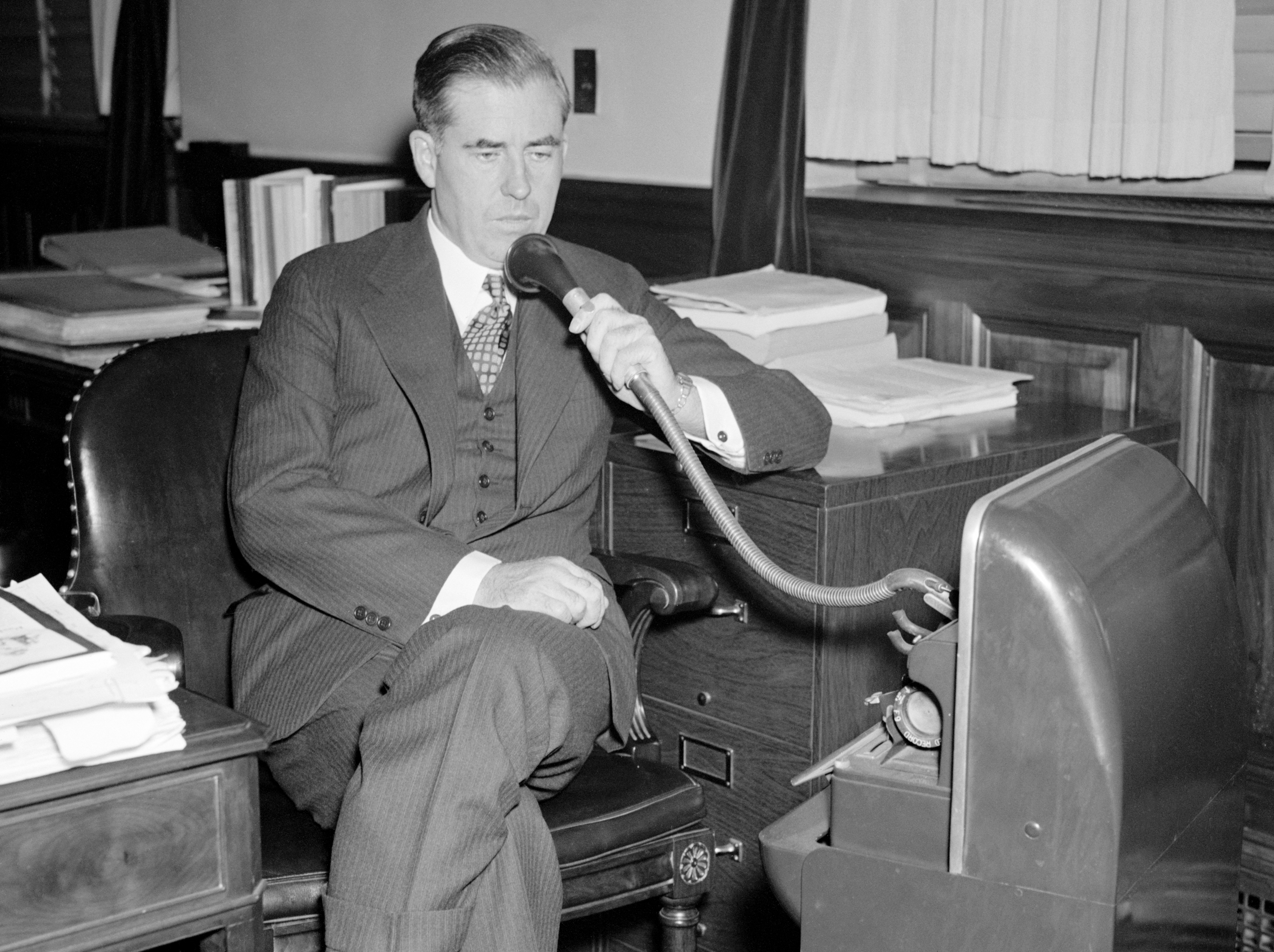 Photograph of Henry Wallace, U.S. Secretary of Agriculture, using a Dictaphone Complete file name follows: Agriculture Secretary prepares speeches with use of dictaphone. Washington, D.C., Sept. 20. Secretary of Agriculture Henry A. Wallace dispenses with the services of a stenographer and instead uses a dictaphone when preparing his speeches. In fact, he seldom uses a stenographer even when dictating [...] picture was made today, 9/20/37